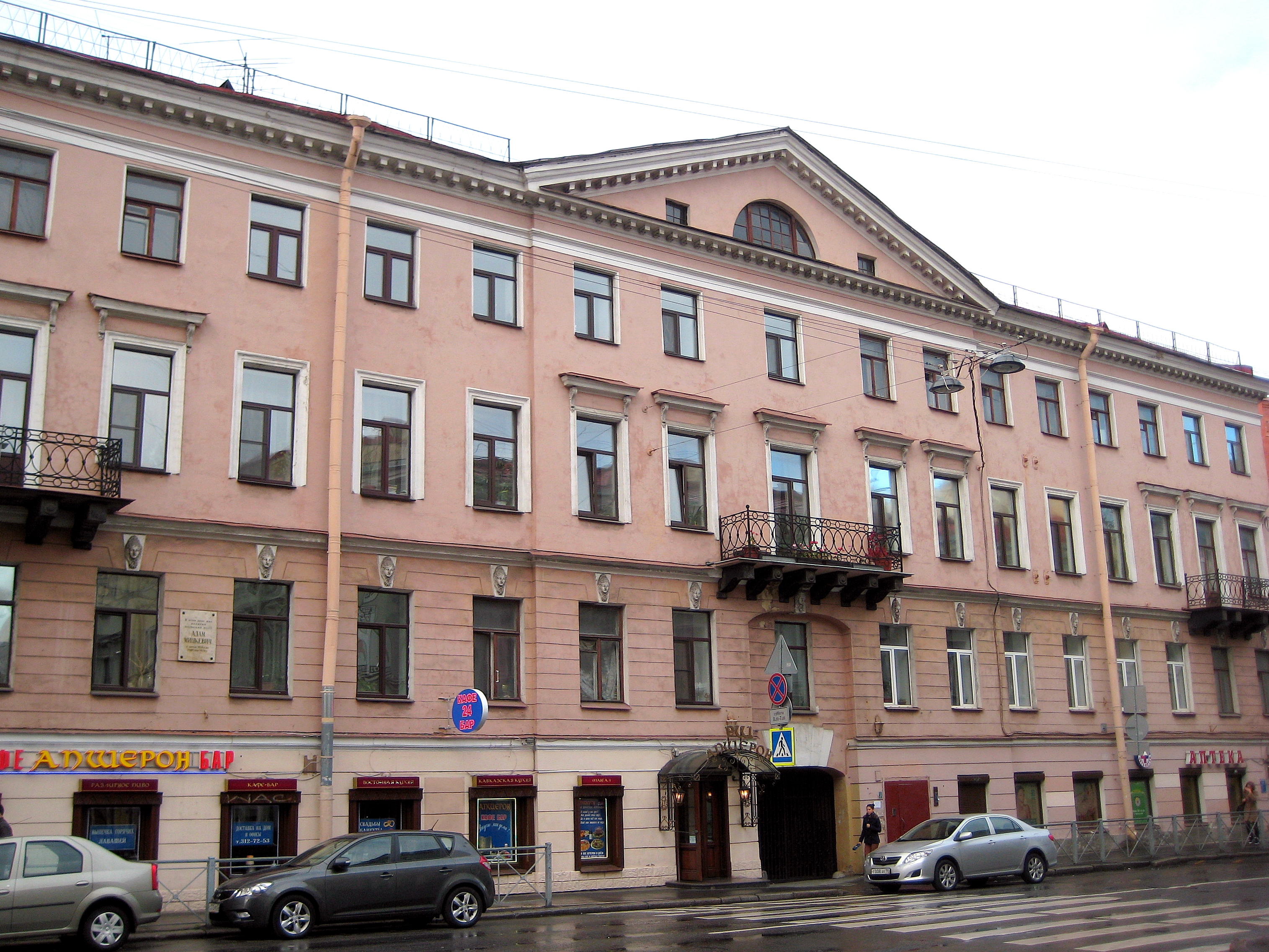 The house of I. Iohim (architect N / A), 1800-1825. In the house from April 1828 to May 1829, the Polish poet Adam Mickiewicz lived: Kazanskaya Street, 39. Admiralteysky District, St. Petersburg.